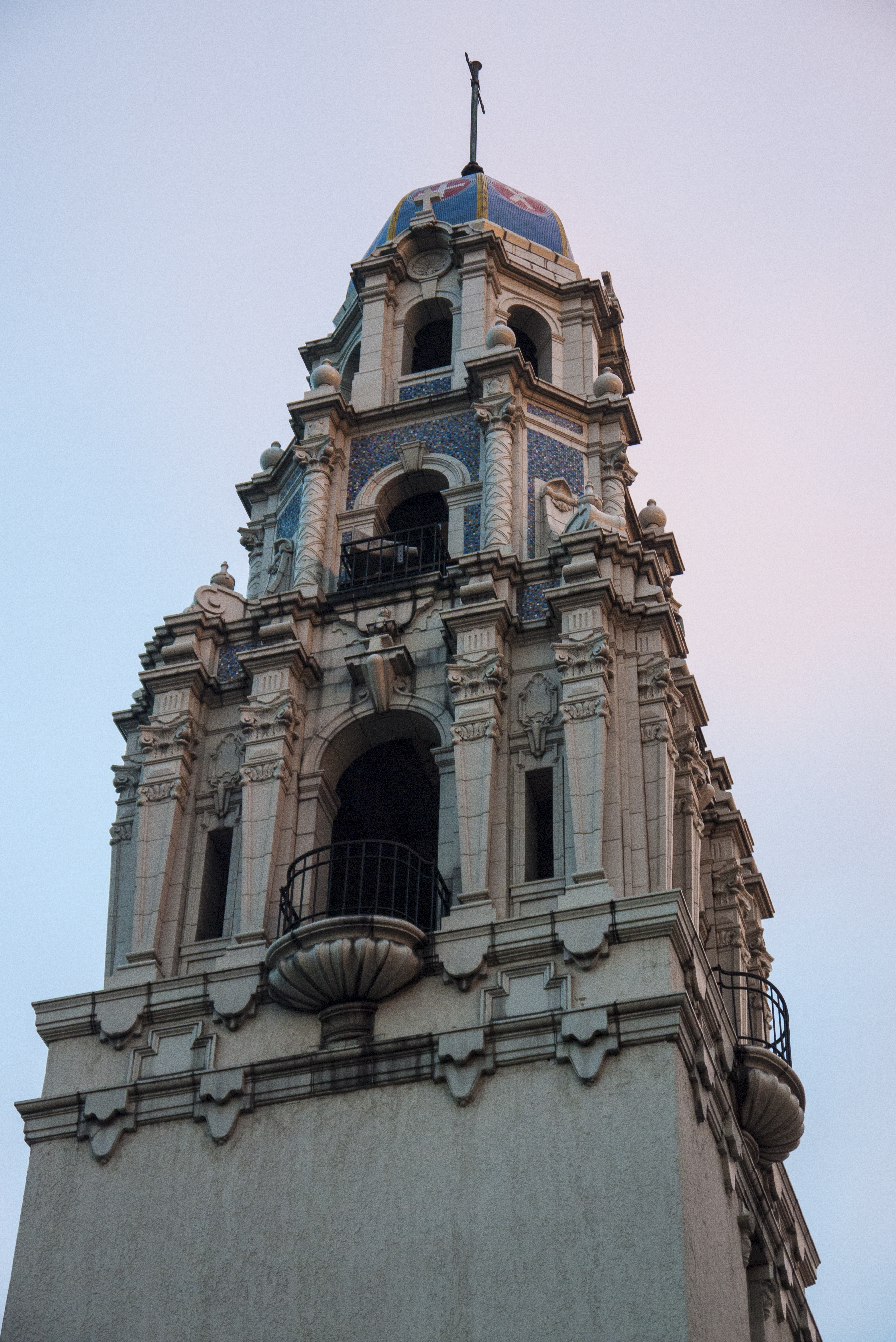 Northern aspect of the tower of St. Paul's Cathedral in Yakima, Washington.